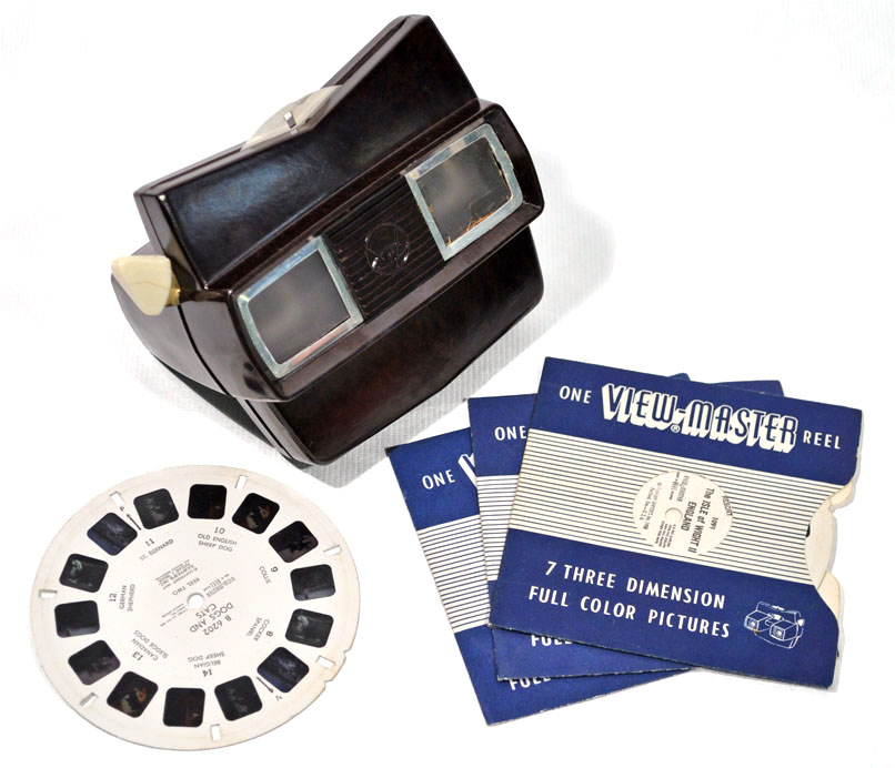 View-Master Model C with three reels. The device allows the user to view seven 3-D images on a paper disk. It was mostly marketed as a toy but was originally sold as a way for viewers to view tourist attractions. “Carry On Collecting” is a project set up by the Museum of Hartlepool to collect objects which represent everyday life in the town and beyond, from the 1950s through to the present day. The collection also attempts to represent the diversity of the people of Hartlepool over the past 60 years